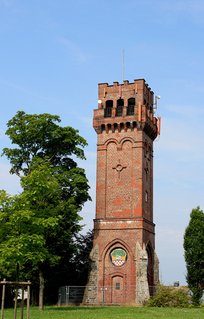 the town's landmark